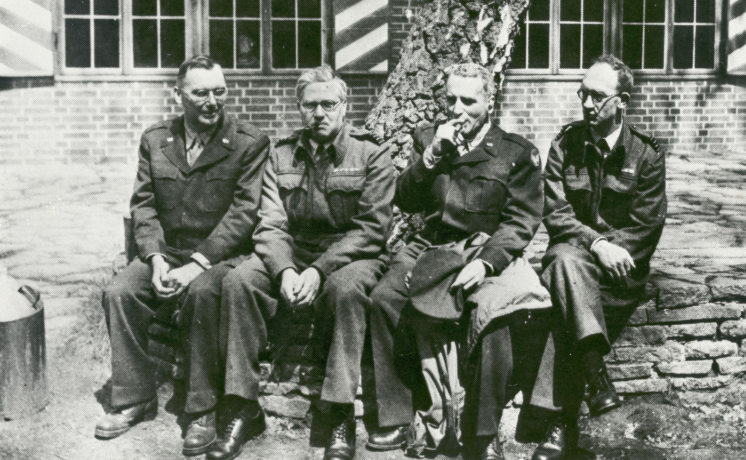 Dr. Hugh L. Dryden (left), along with Dr. Ben Lockspeiser of England, Dr. Theodore von Karman, and Dr. A.P. Rowe of England, toured aeronautical research facilities in occupied Germany on May 9, 1945. As scientific deputy to the Scientific Advisory Group of the Army Air Forces, headed by Dr. von Karman, Dr. Dryden wore an officer's uniform without rank insignia.